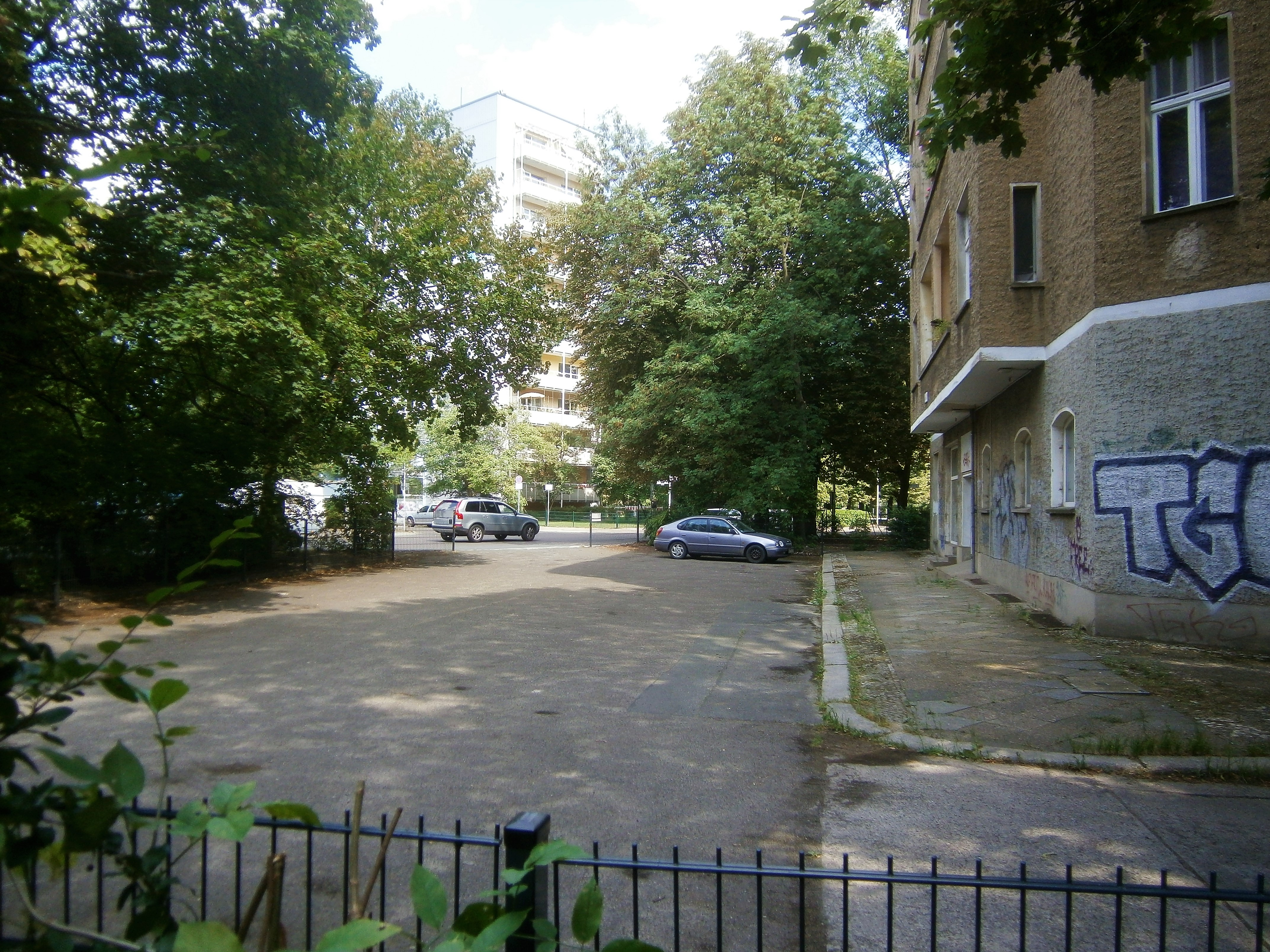 The Blumenstraße is an old Street in Berlin-Mitte. After the World War II was it here very destroyed and the street running was changed in a old road section an a new section named Neue Blumenstraße. This picture